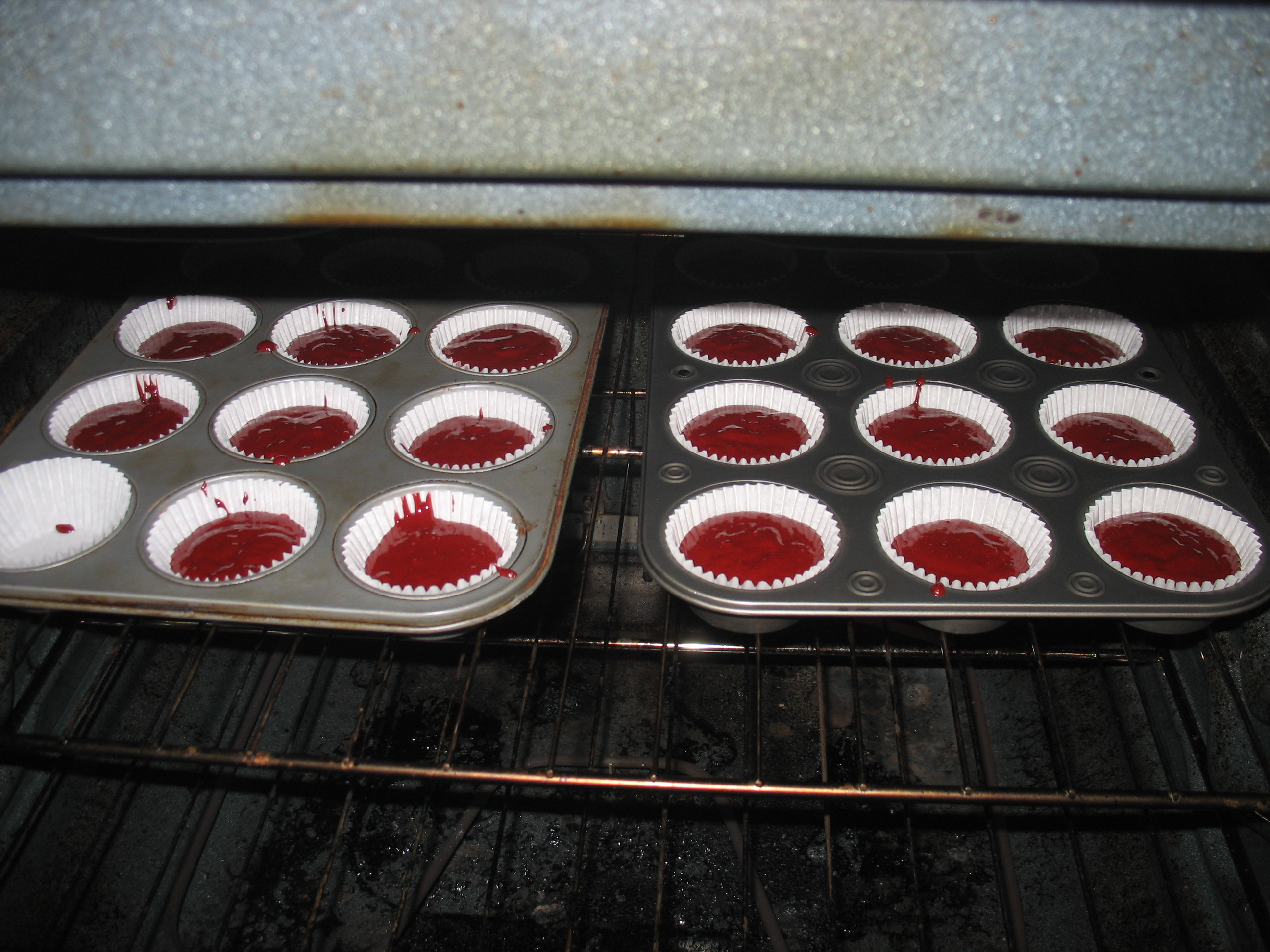 "Stars & Wine Bars" cupcakes in the oven. Red Velvet cake batter with "Big House Red" wine used to replace the water.